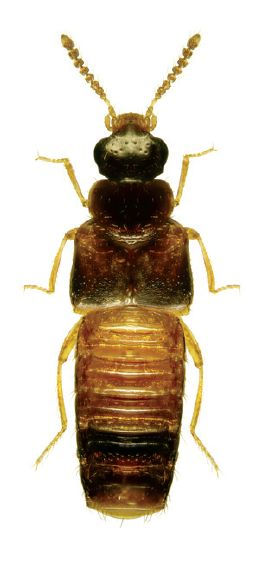 Dorsal view of Gyrophaena (G.) gaudens (apical part of abdomen removed).